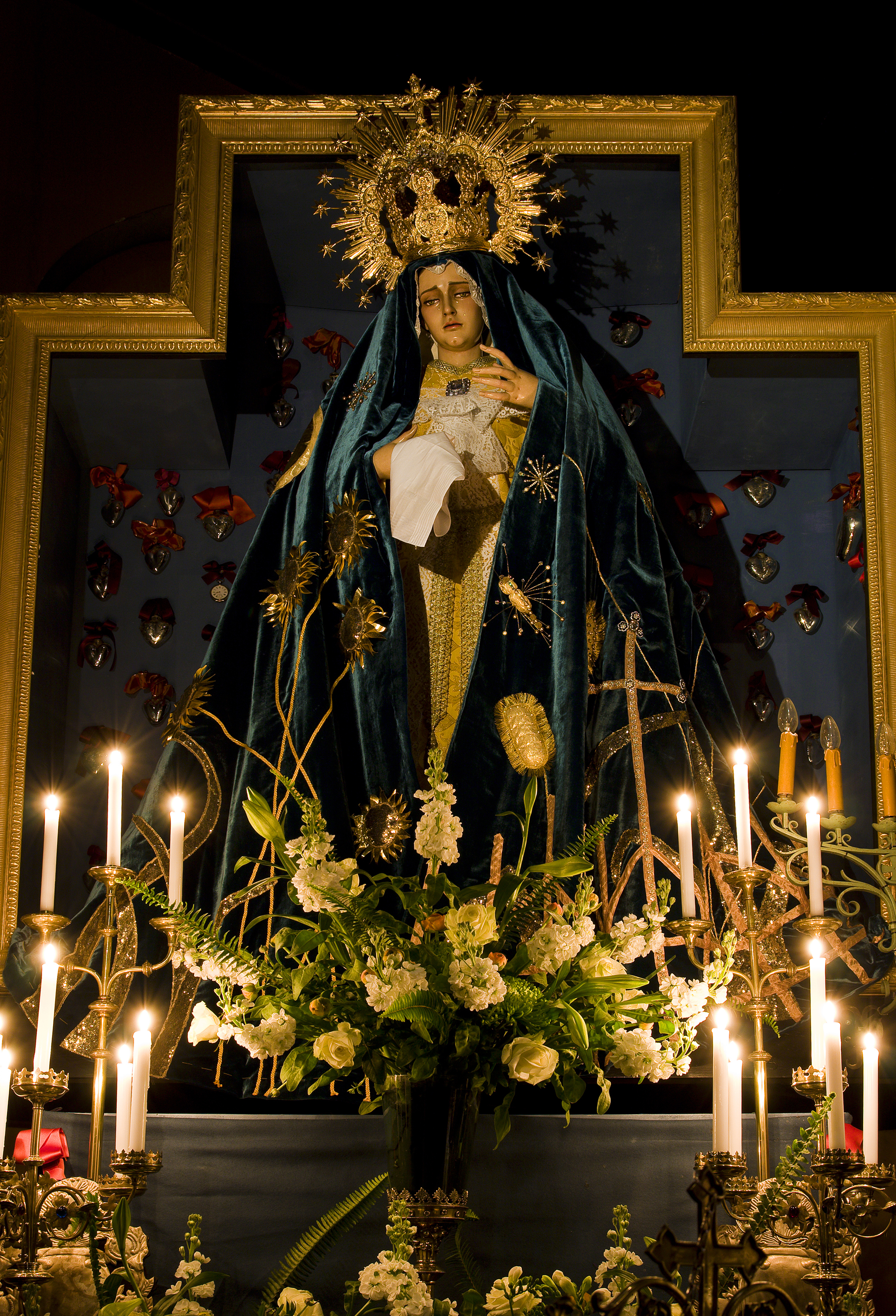 Our Lady the Garden Enclosed wearing hear famous 'schutsmantel' by Ramiro Koeiman